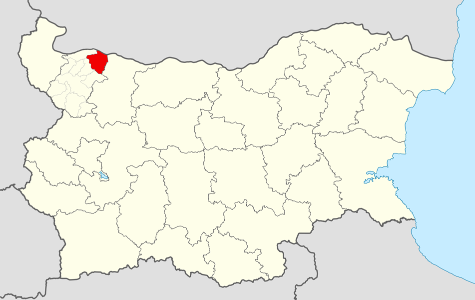 Location map of Valchedram Municipality within Bulgaria and Montana Province. Equirectangular projection, N/S stretching 130 %. Geographic limits of the map: N: 44.4° N S: 41.1° N W: 22.1° E E: 28.9° E